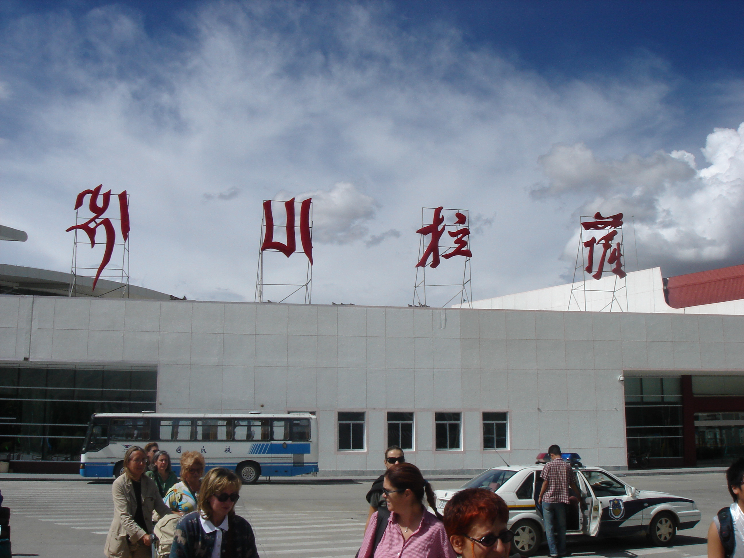 Lhasa Airport